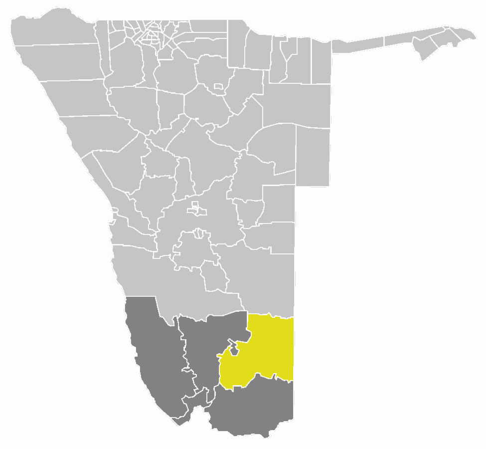 map of the Keetmanshoop Rural constituency within the Karas region, Namibia